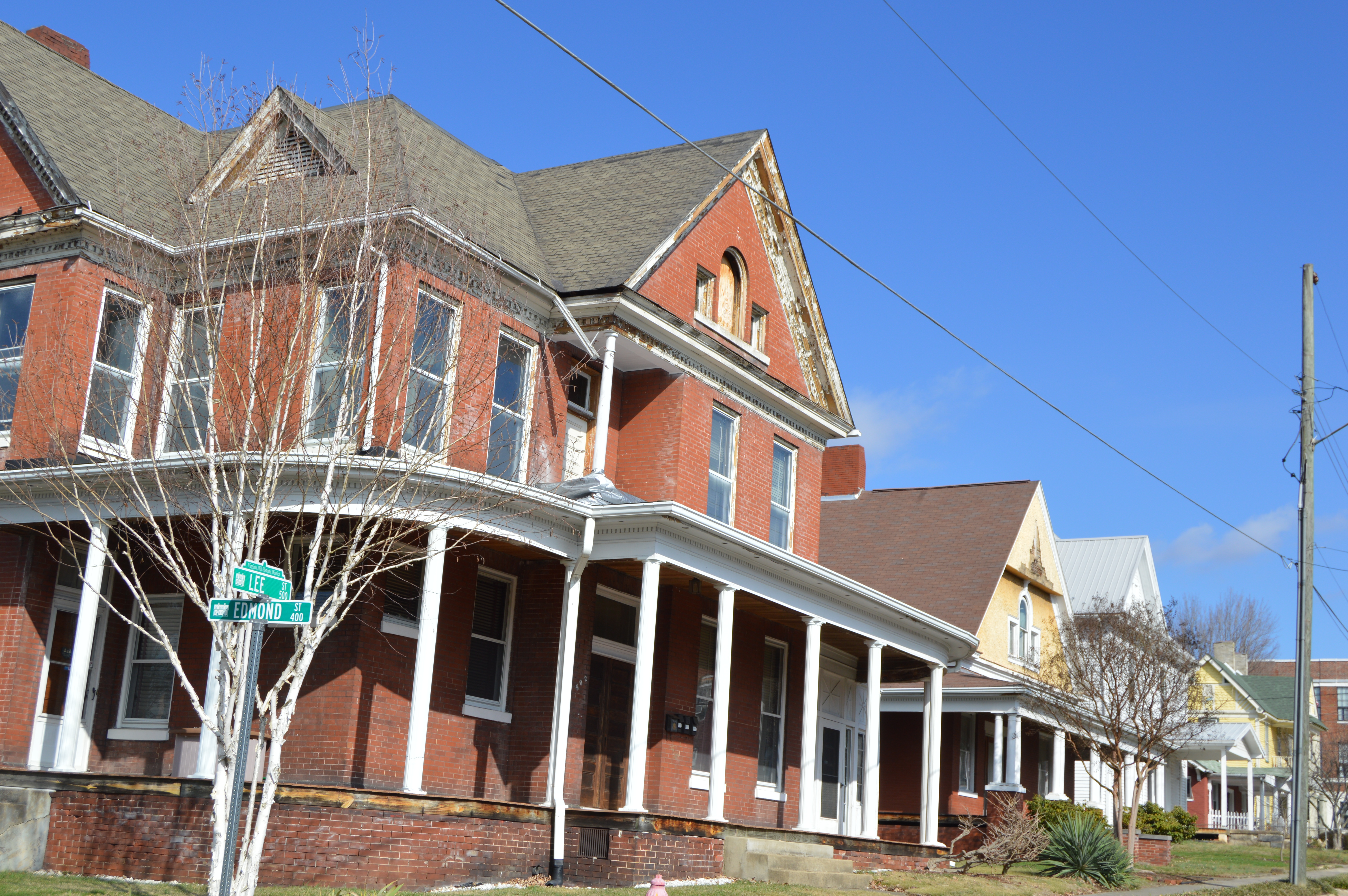 Houses on the western side of Lee Street, immediately north of Edmond Street, in Bristol, Virginia, United States. This block is part of the Virginia Hill Historic District, a historic district that is listed on the National Register of Historic Places.